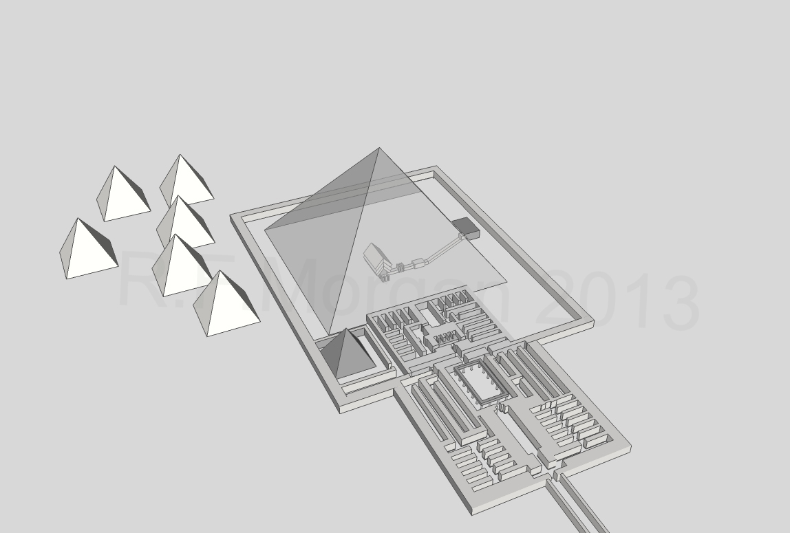 Pyramid of Pepi I taken from a 3d model